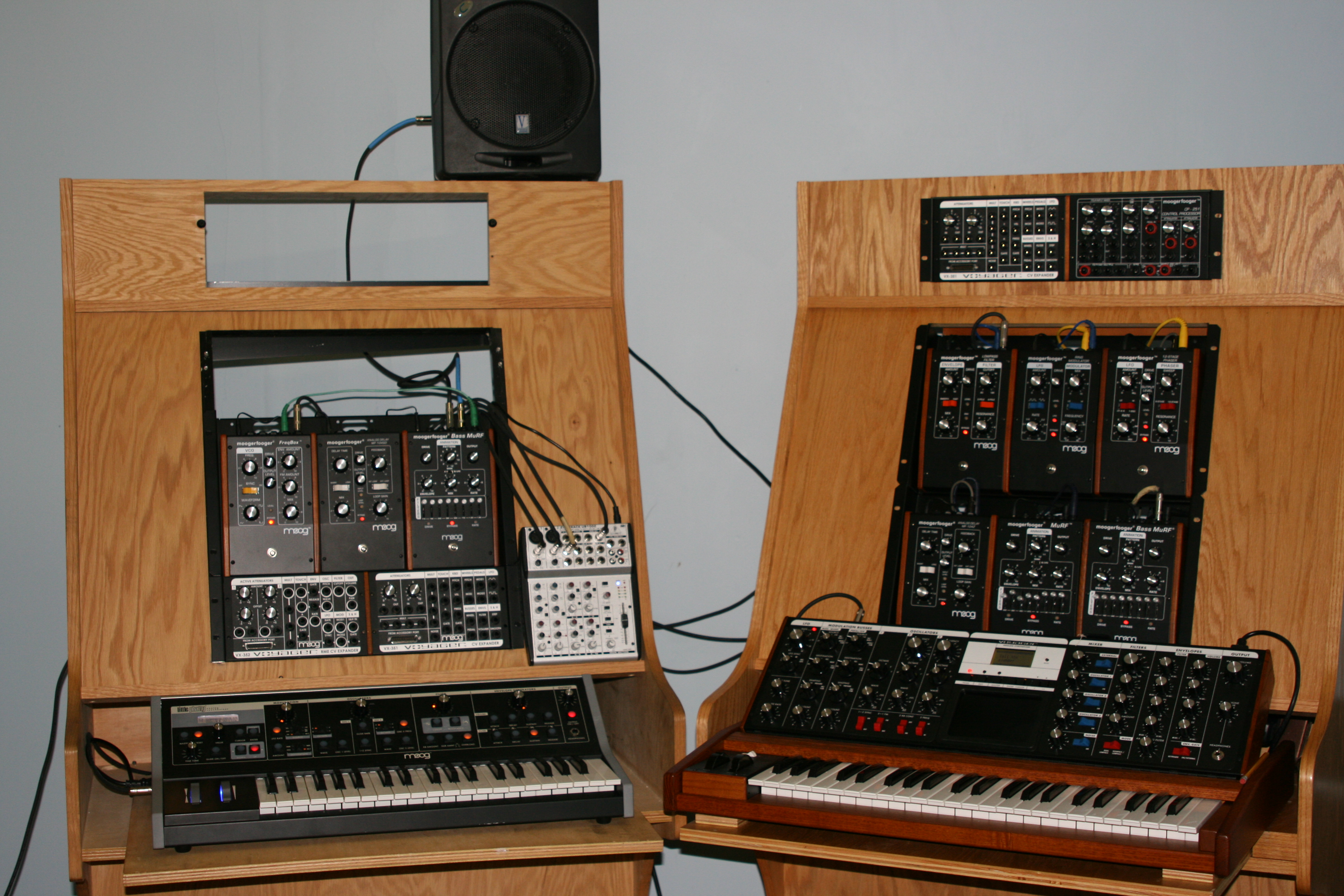 Moog sound room photos by hyreone@Flickr Hyreone says This was the Moog sound room when I visited. The outputs of the Moogs were routed through the Moogerfoogers for demonstration purposes. I didn't get a picture of the Etherwave Pro, but you can always check the Moog Music site if you wish to take a look.